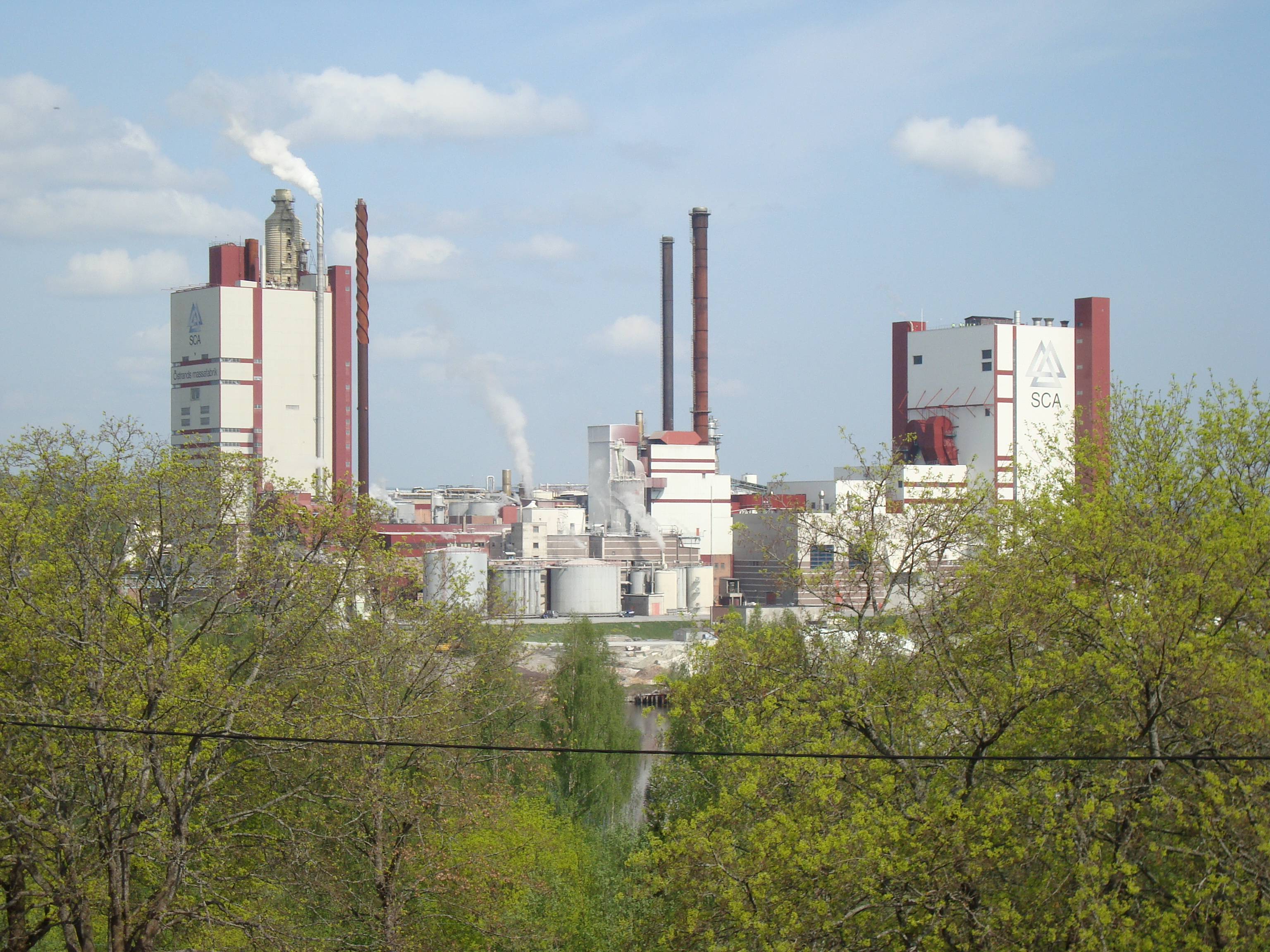 A picture of Östrand pulp mill. It's one of the biggest employers in Timrå and is owned by SCA.